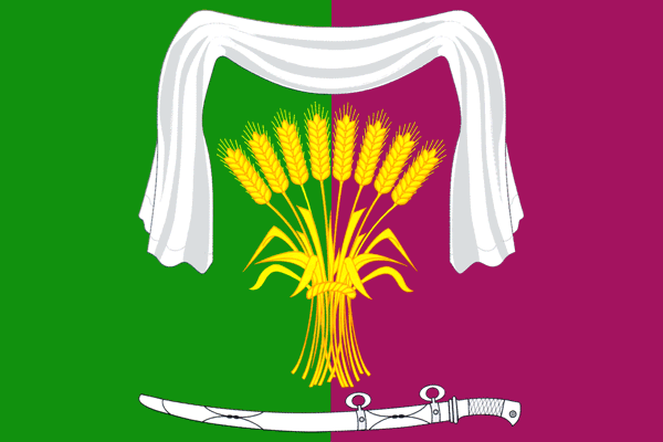 Flag of Novopokrovsky rayon, Krasnodar Territory, Russia